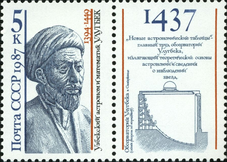 A USSR stamp, Scientists. Date of issue: 8th October 1987. Designer: A. Starilov Michel catalogue number: 5757Zf. 5 K. multicoloured. Portrait of Ulug Beg (mathematician and astronomer)